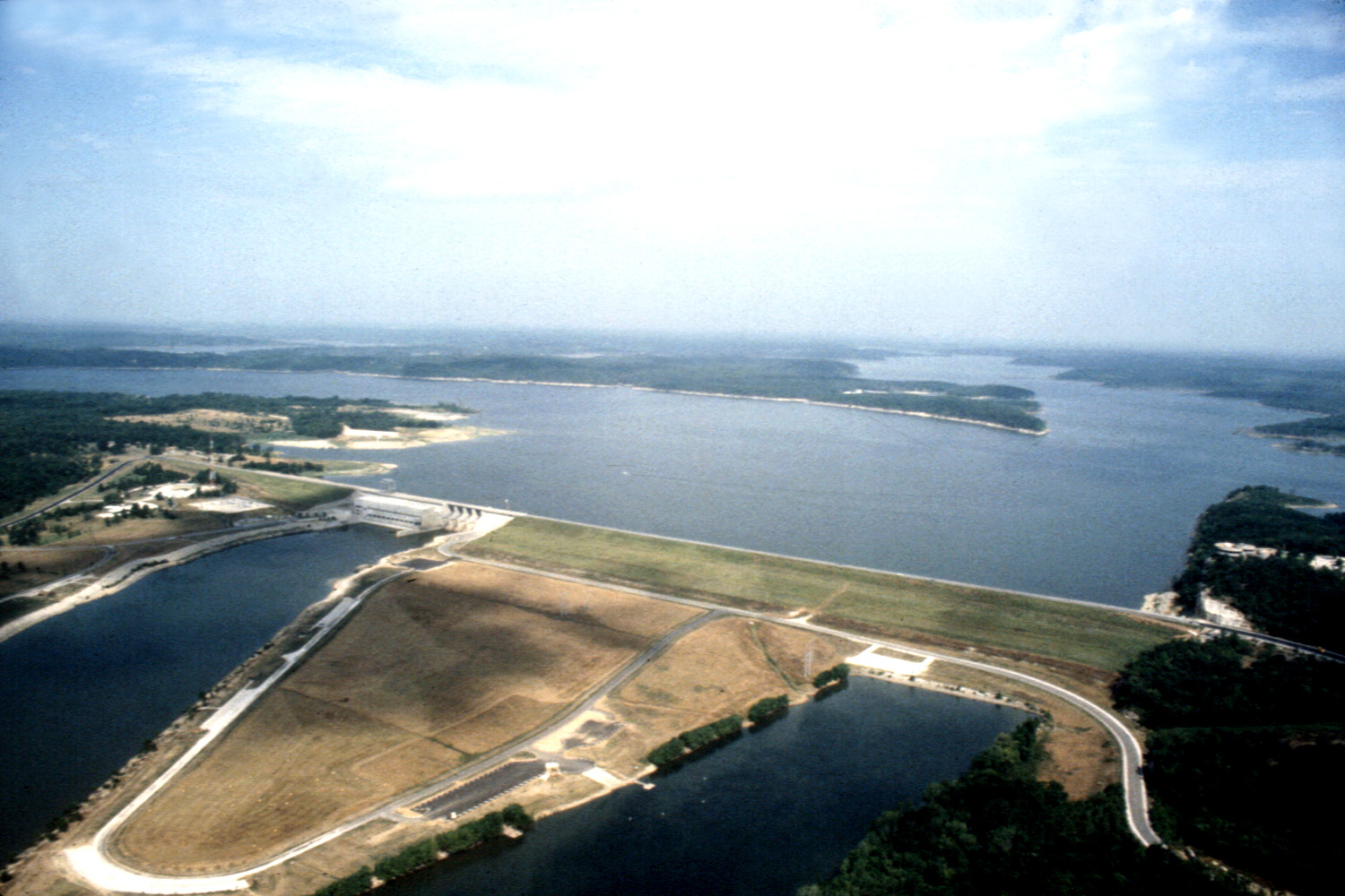 Harry S. Truman Dam on the Osage River, Missouri, USA. The dam is located near Warsaw, Missouri in Benton County and the reservoir extends into Benton, Henry, St. Clair, and Hickory Counties.